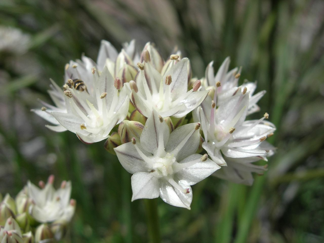 Allium haematochiton — a species of wild onion known by the common name redskin onion. It is native to northern Baja California and southern California where it grows on the slopes of the coastal chaparral hills.